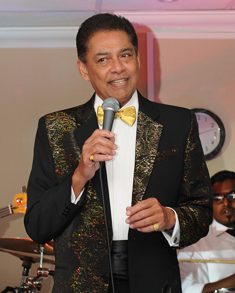 Desmond de Silva singing in London 2013